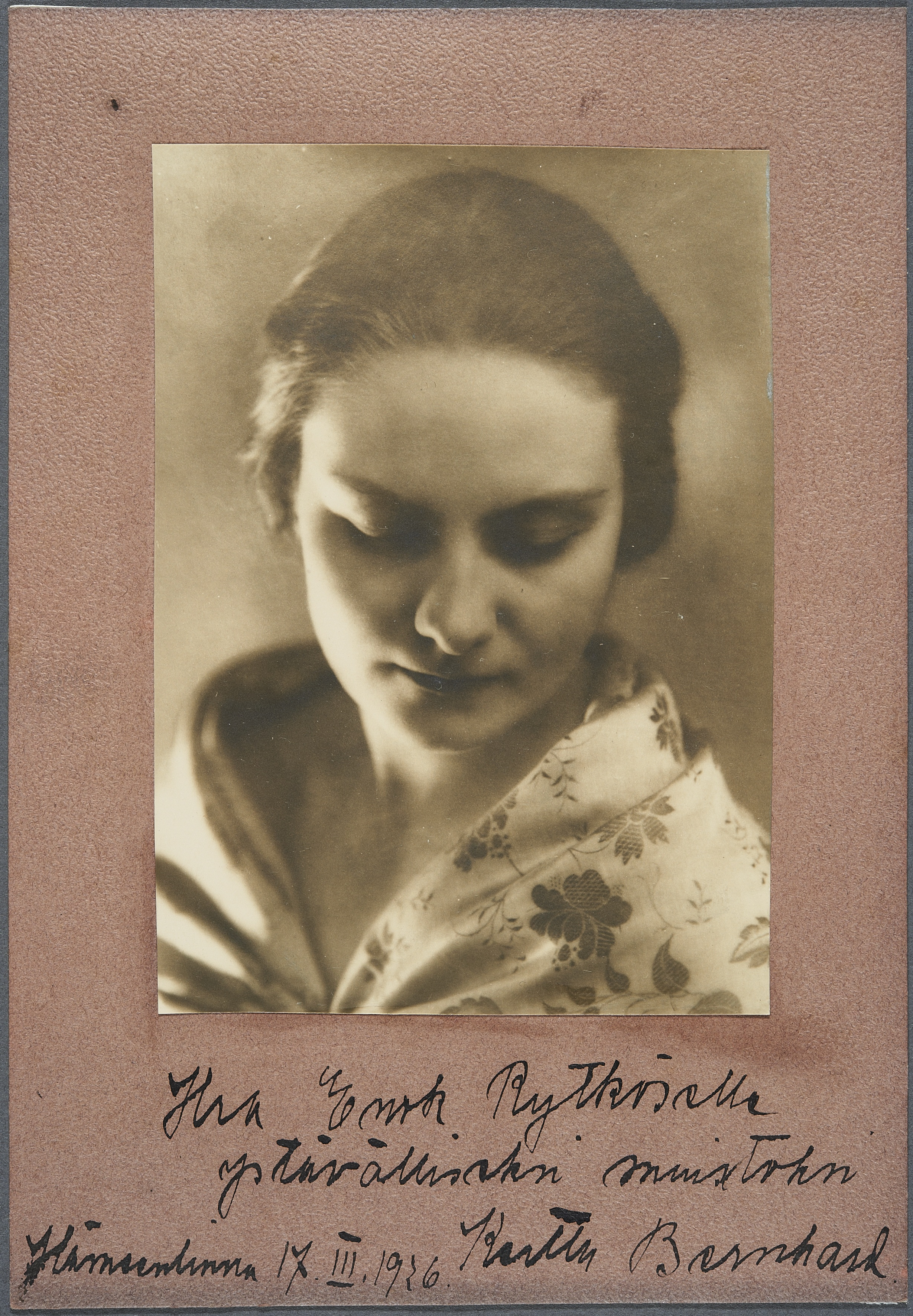 Publicity photograph of the Finnish pianist Kerttu Bernhard (1902–1944).